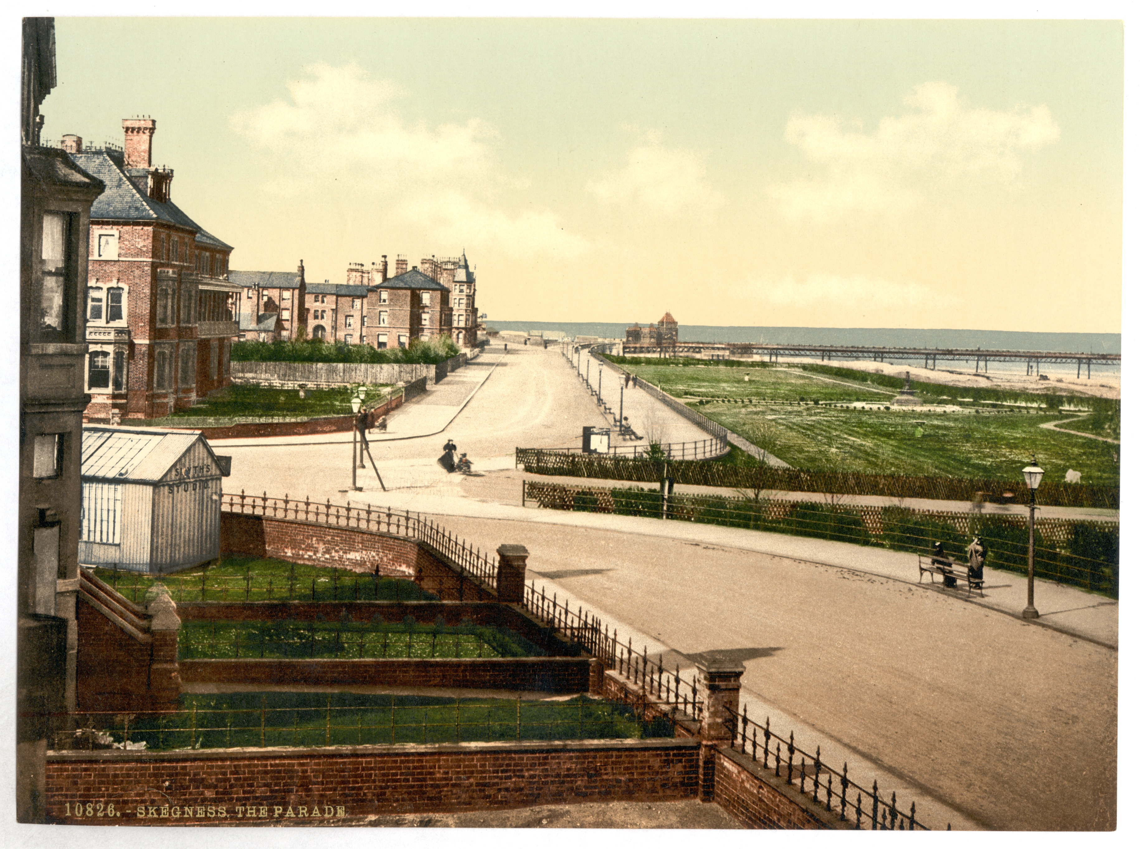 Print no. "10826".; More information about the Photochrom Print Collection is available at Title from the Detroit Publishing Co., Catalogue J-foreign section, Detroit, Mich. : Detroit Publishing Company, 1905.; Forms part of: Views of the British Isles, in the Photochrom print collection.